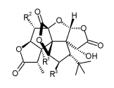 General chemical structure of ginkgolides. The formula was drawn in bkchem and GIMP by user Mykhal.